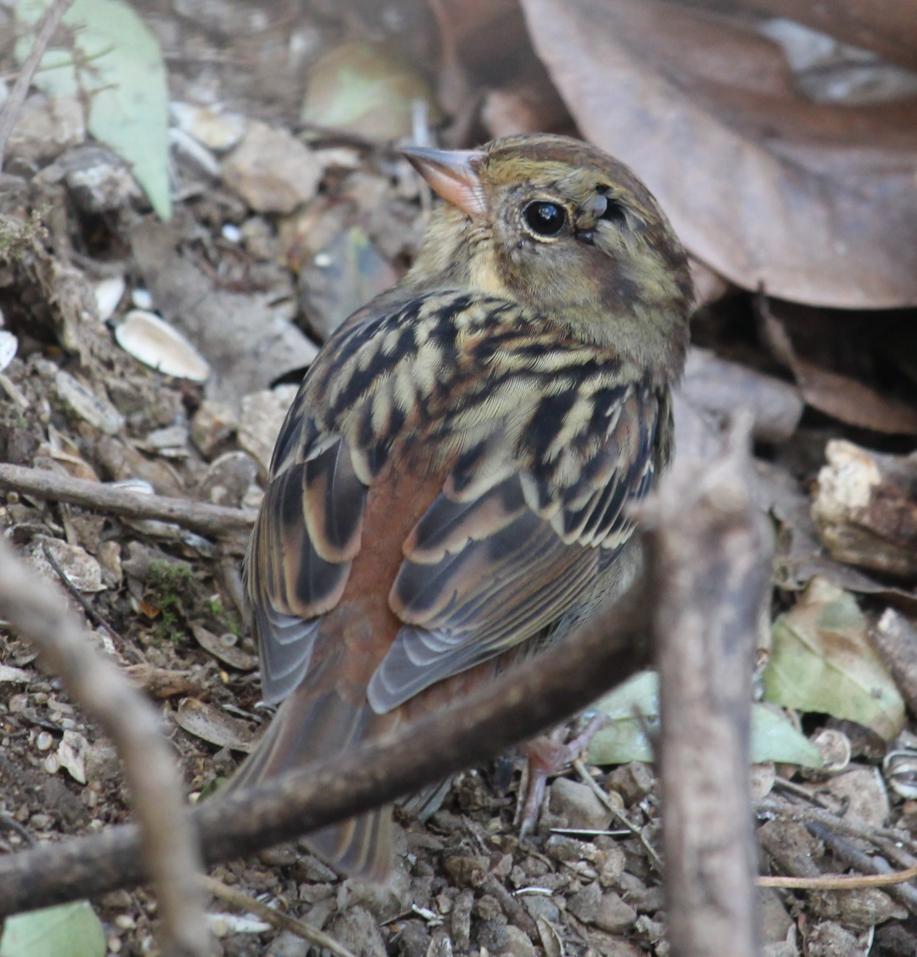 Grey Bunting (Emberiza variabilis), female, in Gifu prefecture, Japan.